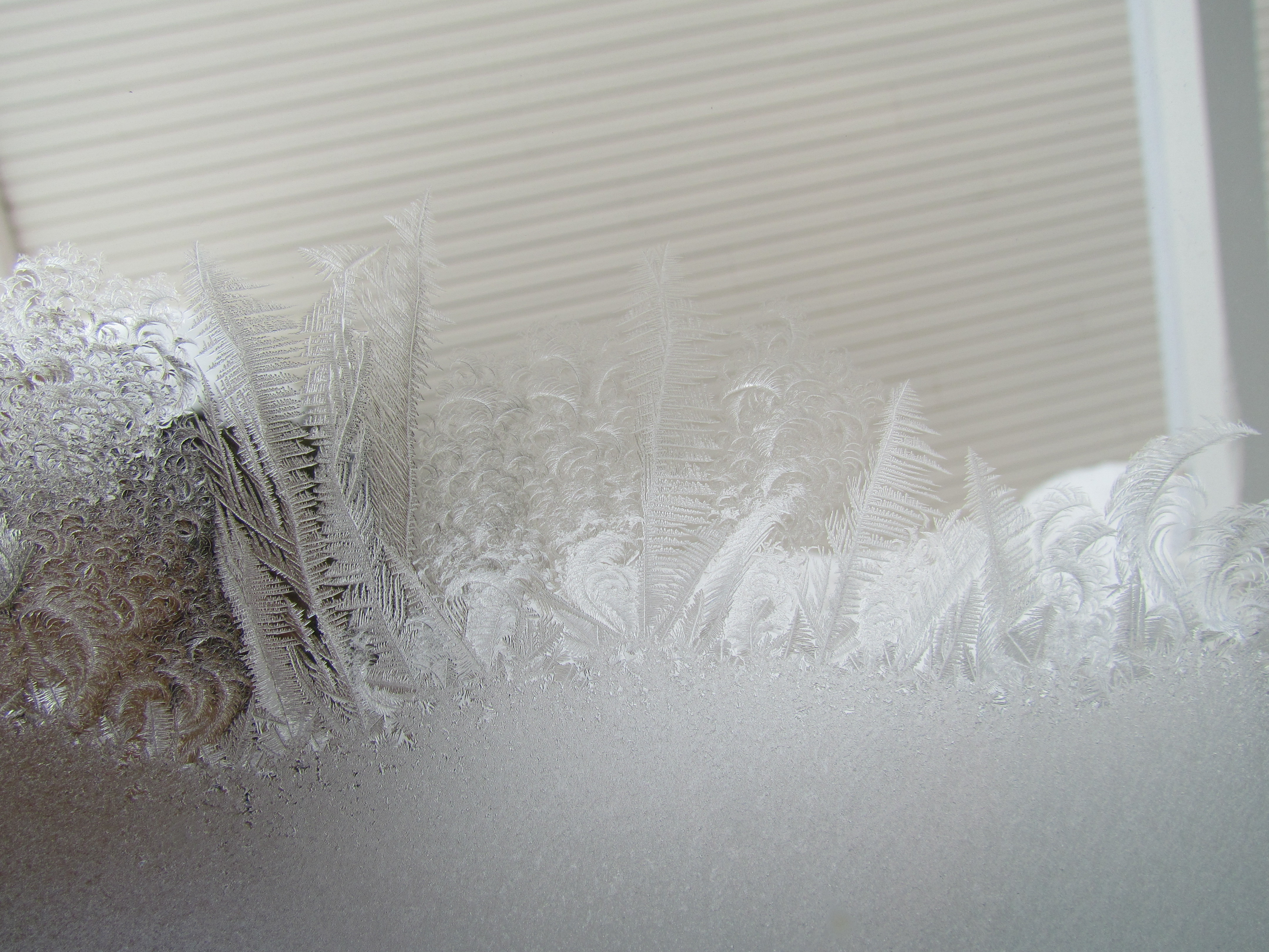 Pattern left by Jack Frost in Gatineau, Quebec